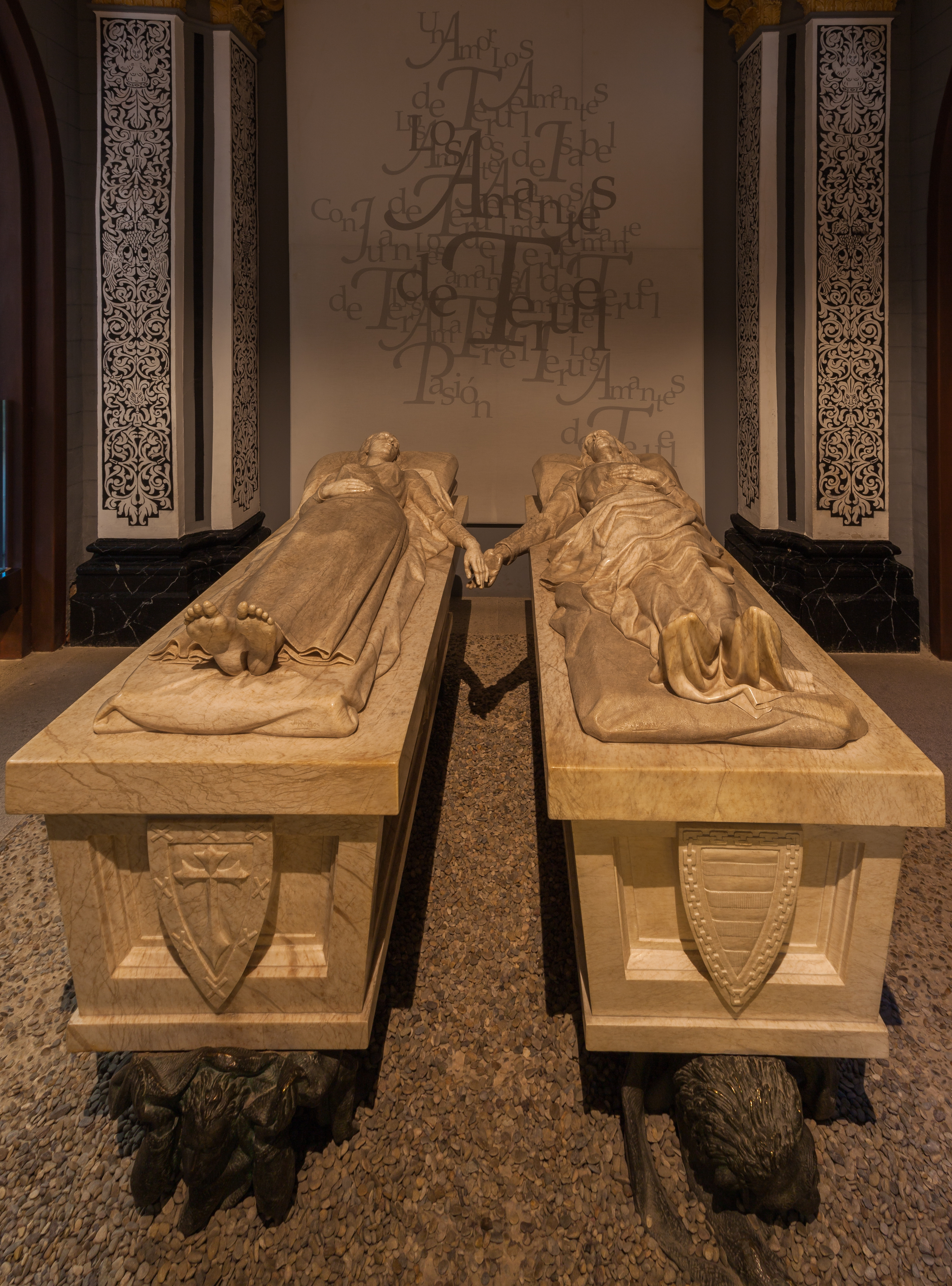 Lovers, Teruel, España